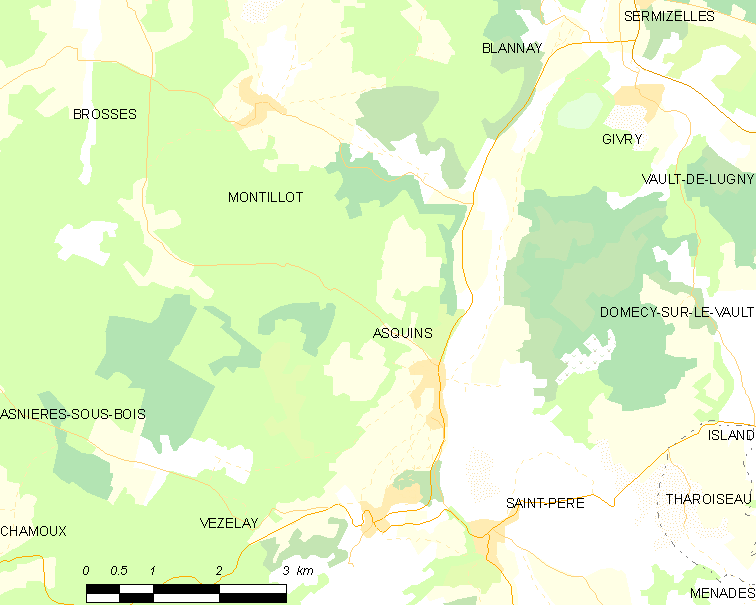 Map of French municipality Asquins